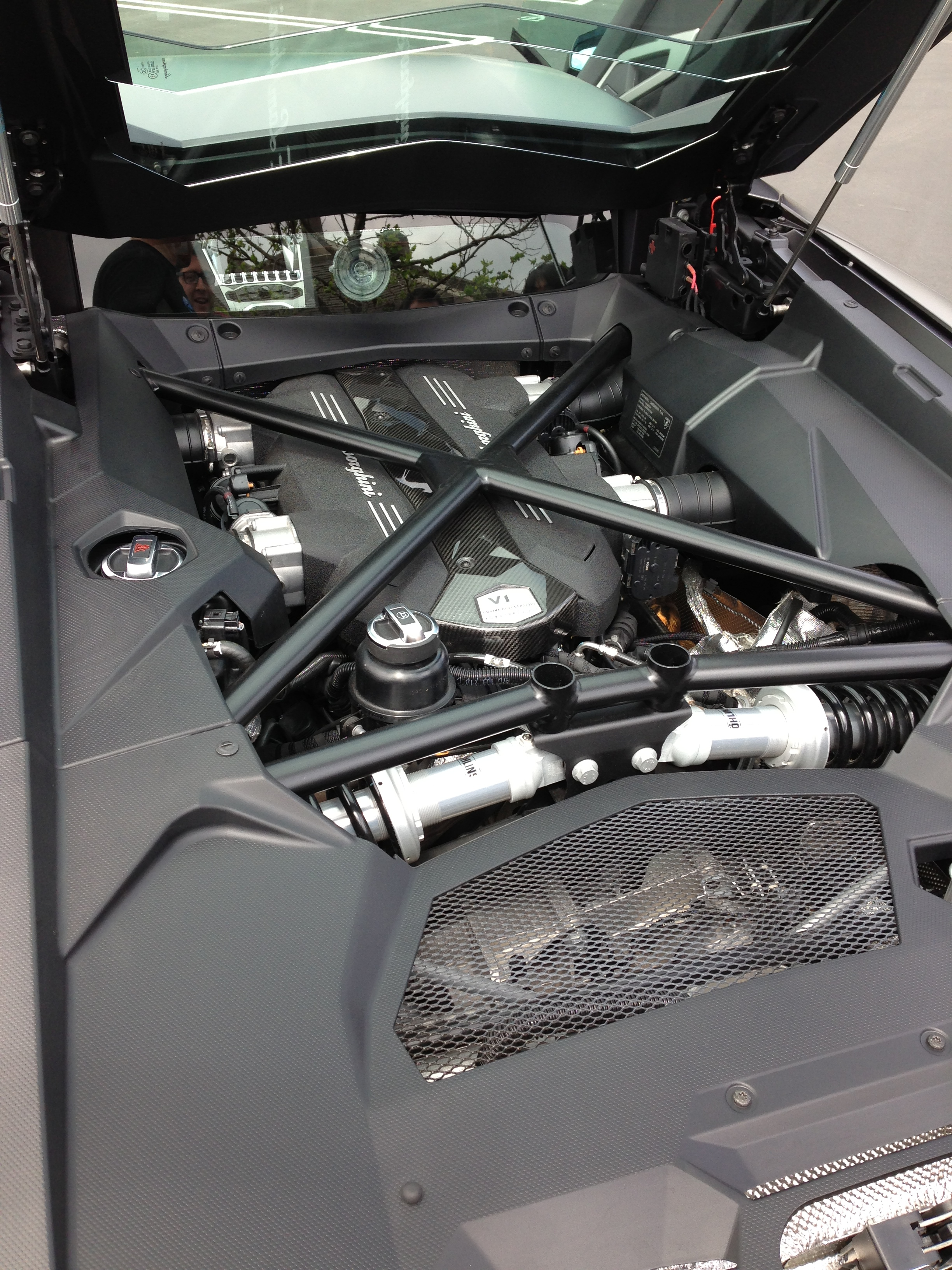 2013 Lamborghini Aventador LP700-4 6.5 liter V-12 engine 691hp @ 8,250RPM Torque:508 lb.-ft. @ 5,500RPM Please Link to my photo Gallery as Credit